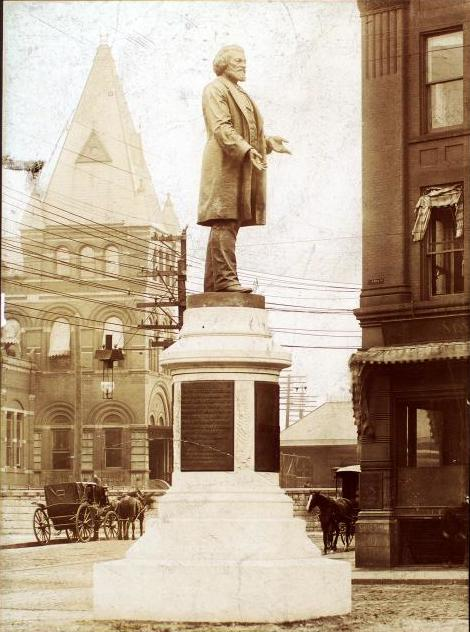 Digital ID: 25SCCAB. [1890s?] Notes: Images of African Americans in the 19th Century Source: Cabinet card collection. Repository: The New York Public Library. Schomburg Center for Research in Black Culture. Photographs and Prints Division. See more information about and others at Persistent URL: Rights Info: No known copyright restrictions; may be subject to third party rights (for more information